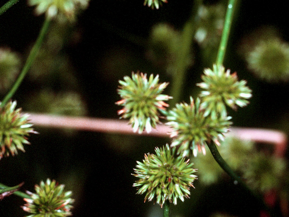 Juncus scirpoides Lam. - needlepod rush